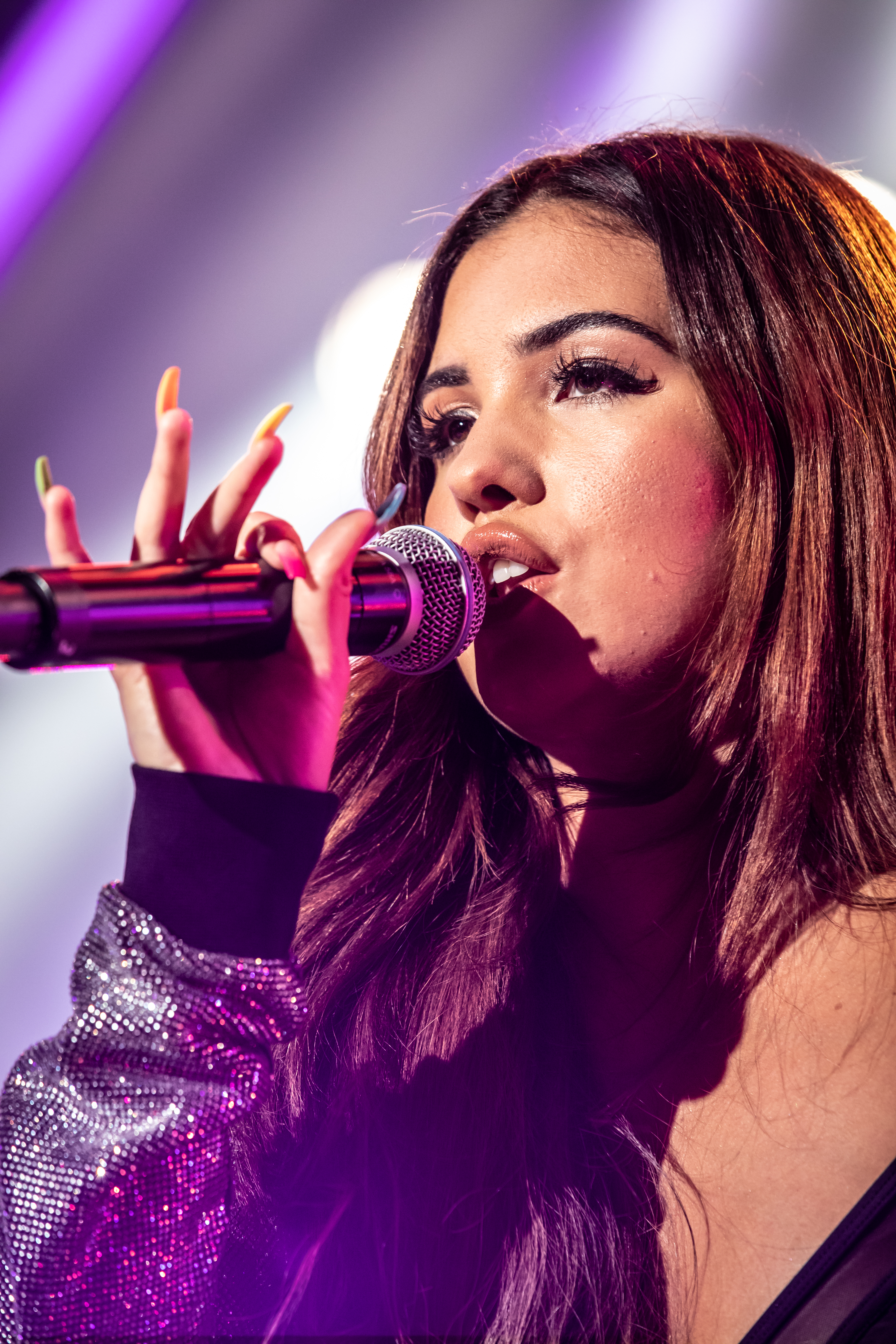 British-Swedish singer Mabel at the SWR3 New Pop Festival 2018